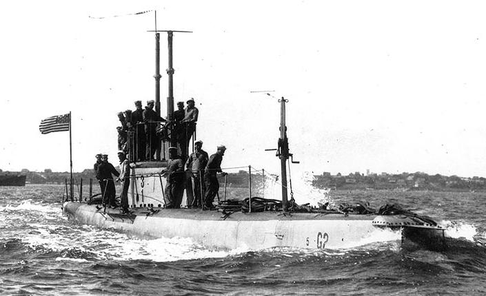 A cropped photograph of the USS G-2, shortly after World War I. The crew is out for some fresh air, also observe the 13 star ship flag at the stern.